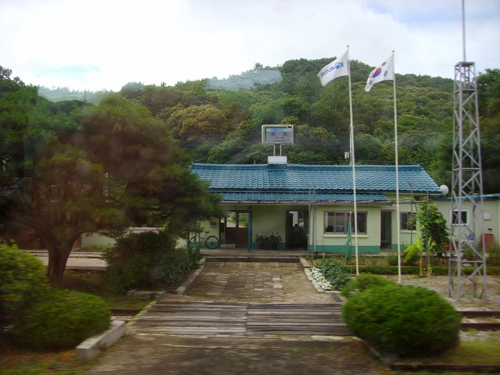 Jungang Line Donghwa Station